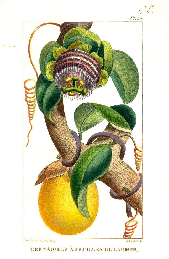 Passiflora laurifolia L., a plate from "Flore Medicale des Antilles" by Michel Étienne Descourtilz (1775-1835)